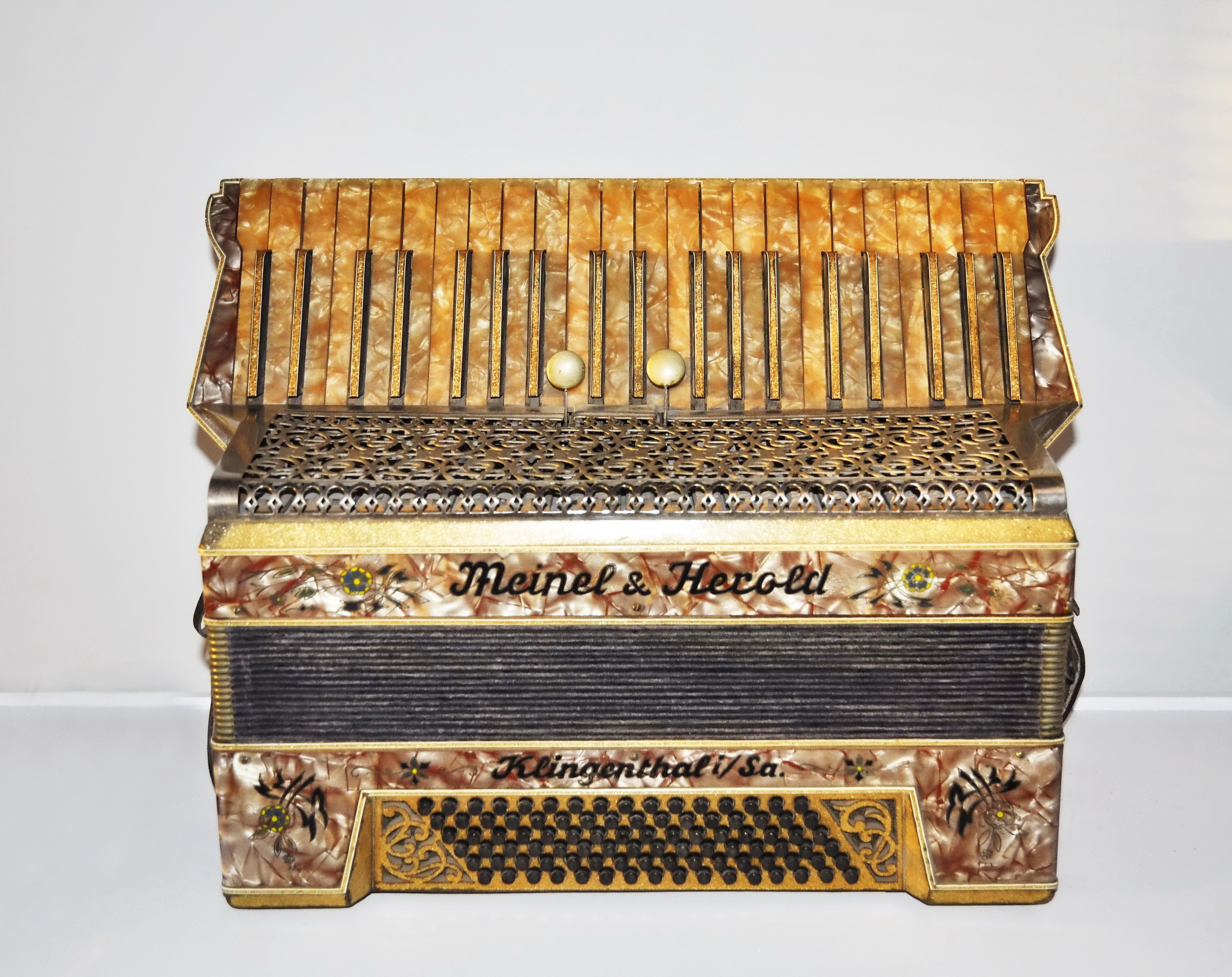 Meinel & Herold accordion from Museum of Science and Technology Belgrade.